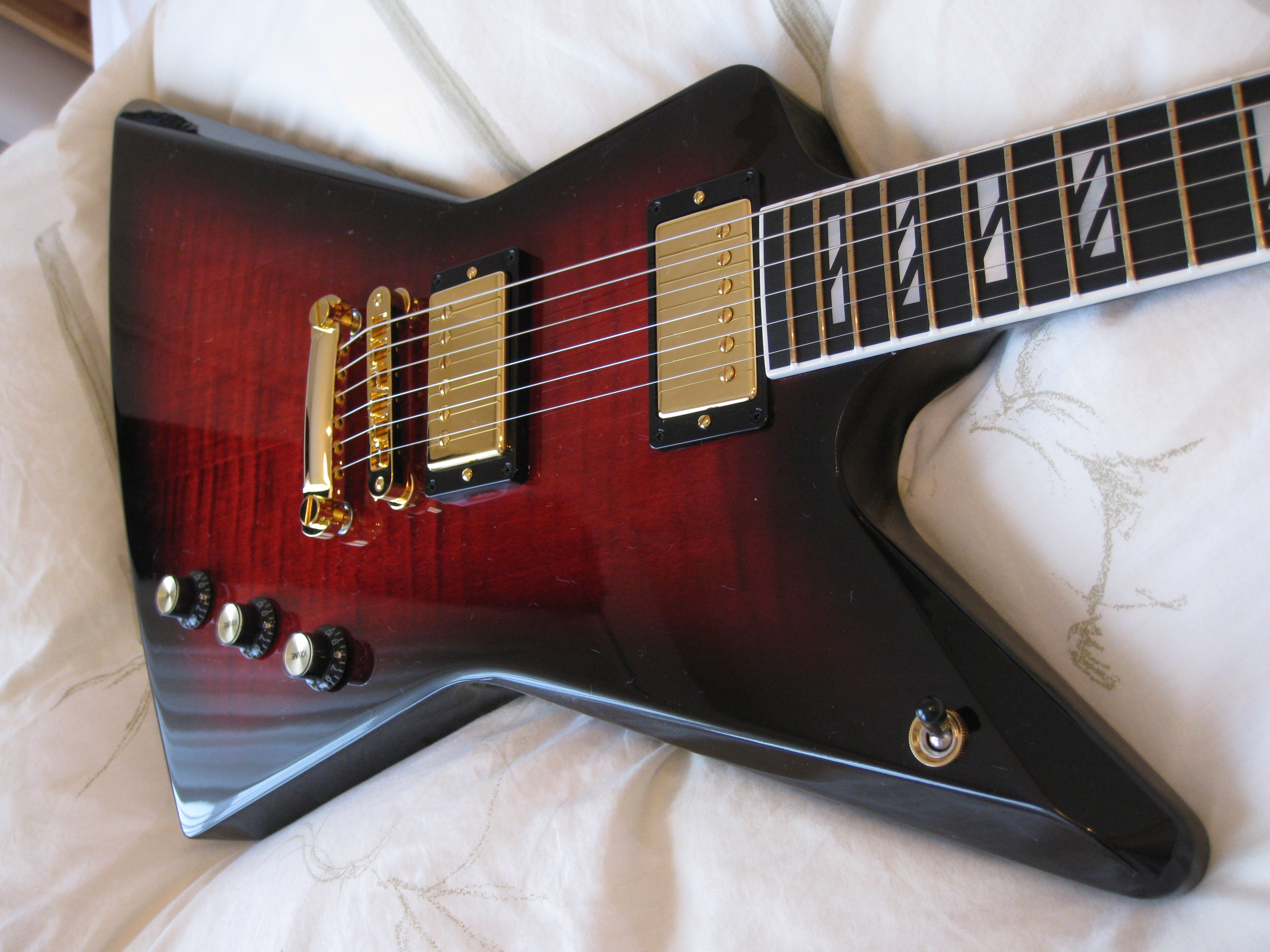 Gibson Explorer - 50 Year Commemorative Model. Features "New Retro Explorer" profile, with rounded edges.